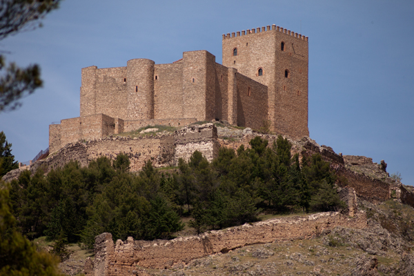 Segura de la Sierra, Andalucía, Jaén, Spain; ; ref PM_091678_E_Segura_de_la_Sierra; castillo; Photographer: Paul M.R. Maeyaert; © Paul M.R. Maeyaert; ; Cultural heritage; Cultural heritage/castle; Europeana; Europe/Spain/Segura de la Sierra